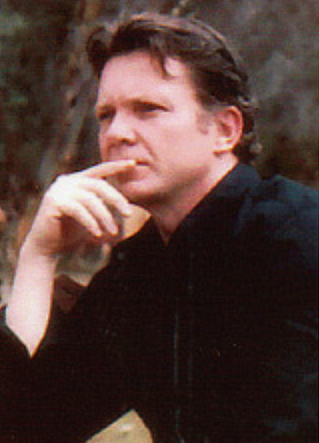 Photo portrait for use at my Wiki page.